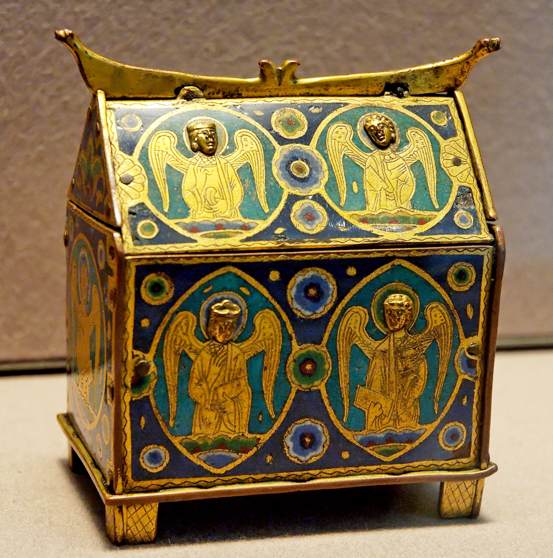 Box with angels, intended to contain small bottles of holy oils.